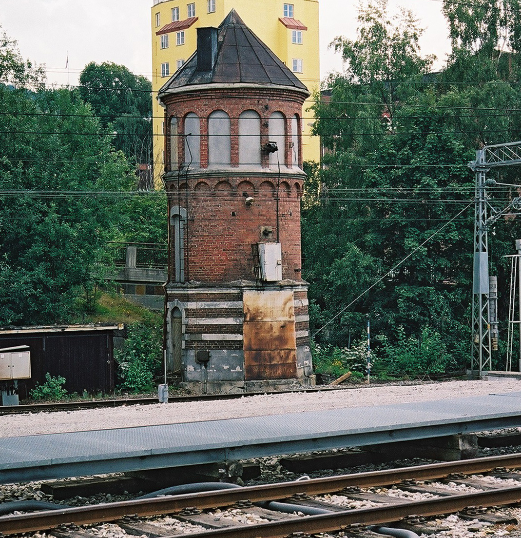 Water tower, Lillehammer railway station, Norway. Built 1892. Architect: Paul Due. Listed building.